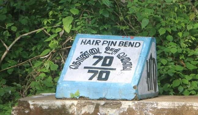 Hair pin bend number